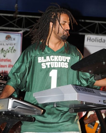 Performance image of James H. Collins Jr. of Fertile Ground